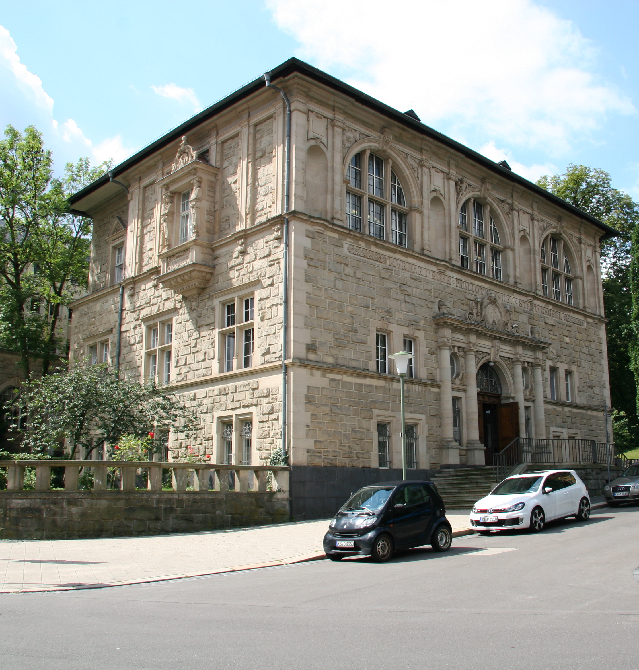 Library